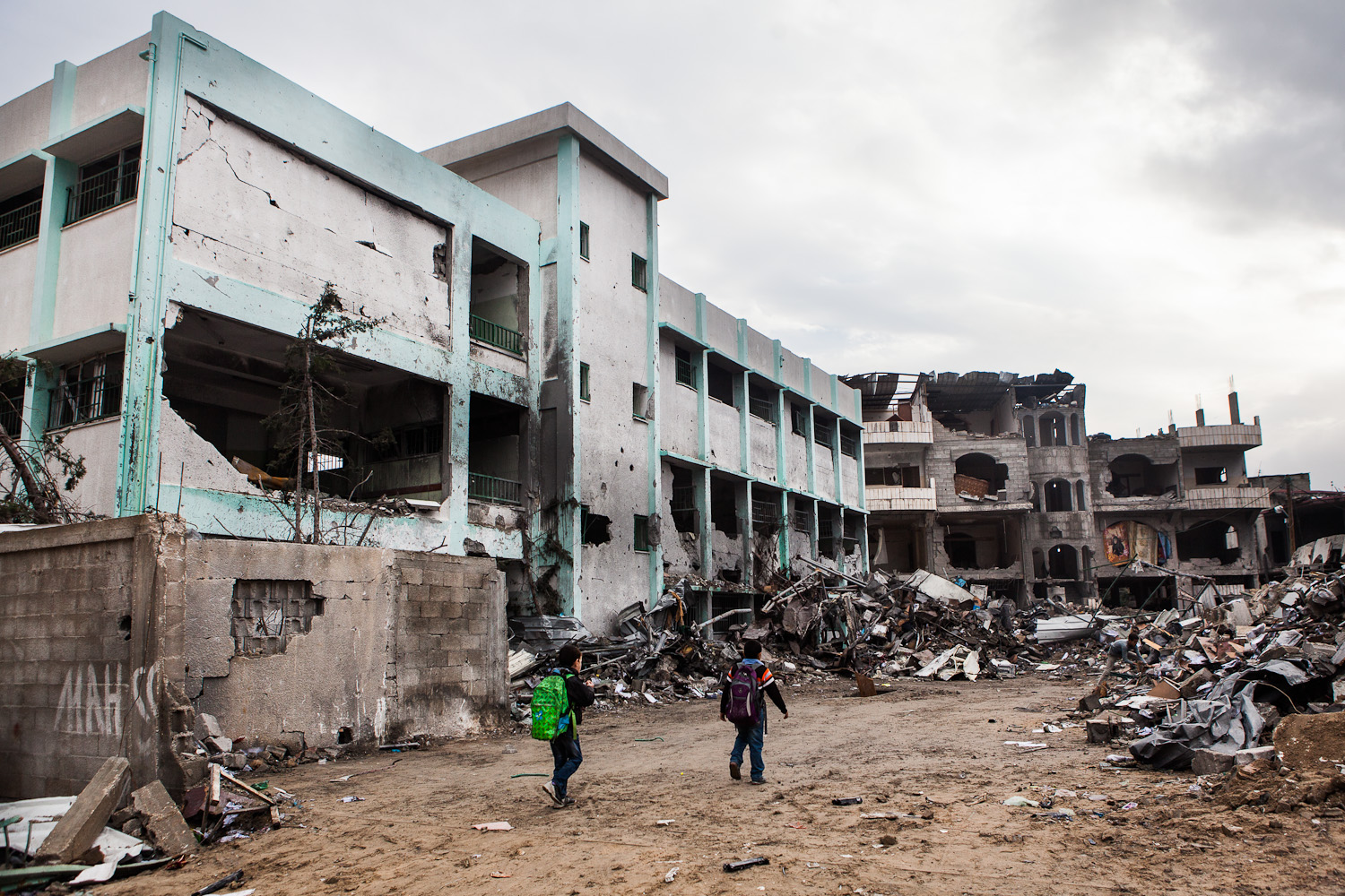 Damaged UN school and remmants of the Ministry of Interior in Gaza City